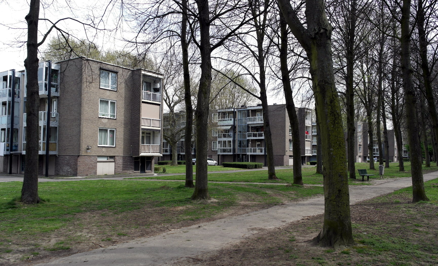 Maastricht, the Netherlands. Typical 1960s apartment blocks in the neighbourhood of Malpertuis (or Malberg?) in Maastricht-West.